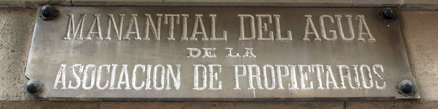 Interior garden at the Torre de les Aigües (Barcelona, Spain)